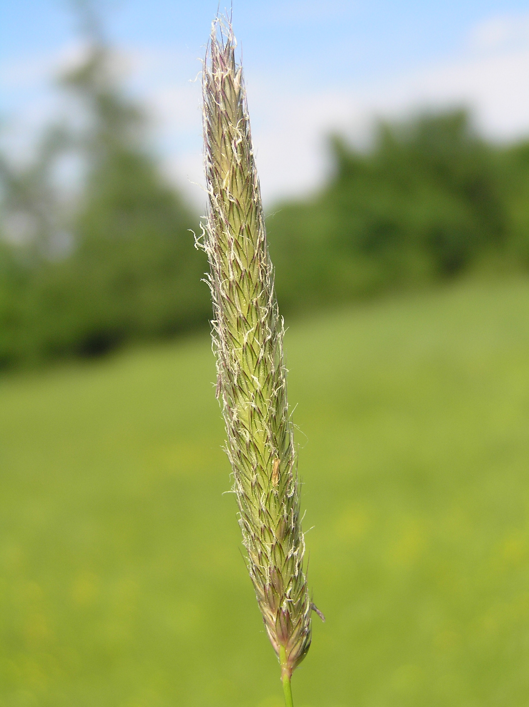 Alopecurus pratensis, Lanžhot, Southern Moravia, Czech Republic